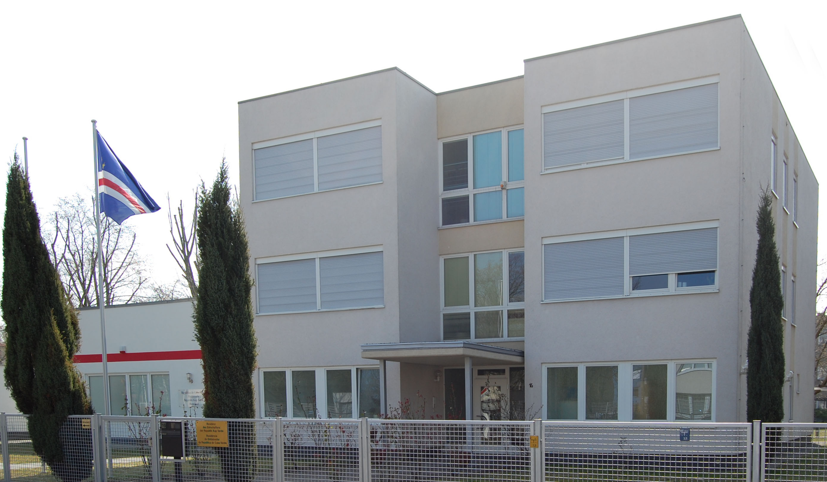 Embassy of Cape Verde in Berlin